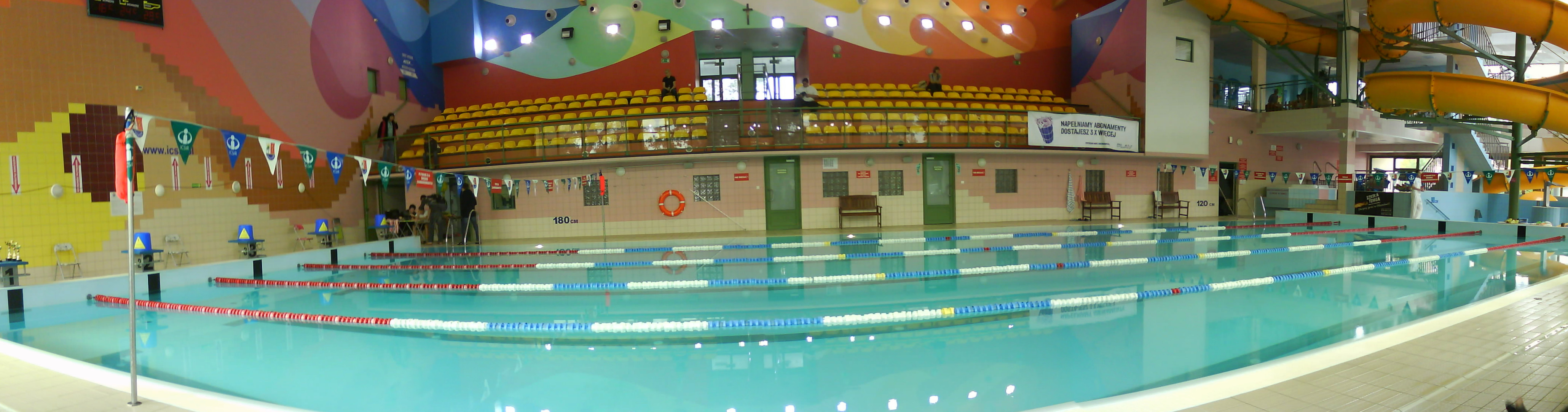 Swimming pool. Integracyjne Centrum Sportu i Rekreacji, Józefów, Otwock County, Poland.